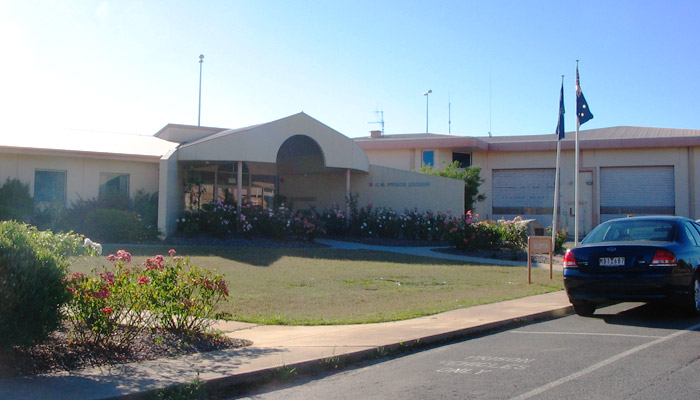 HM Prison Loddon. Photo taken by me, Richard Hill, on 8/1/06.